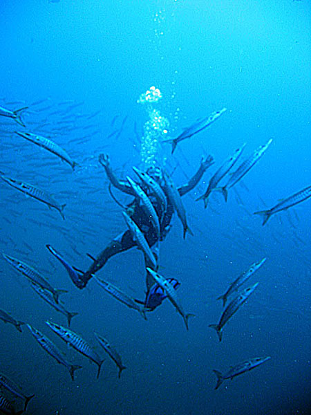 Scuba diver inside a school of Chevron barracudas. Picture taken by Jan Derk in April 2004 in Koh Tao, Thailand. 09:44, 19 April 2005 Janderk 450x600 (91079 bytes) (Scuba diver in school or barracudas . Picture taken by Jan Derk in April 2004 in Koh Tao , Thailand . GFDL )